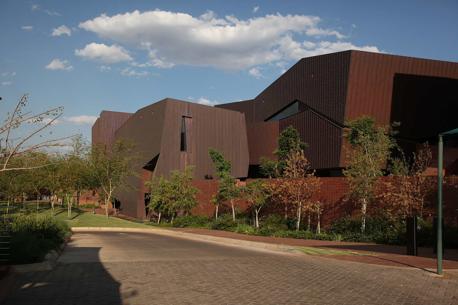 Freedom Park, Salvokop, Pretoria This media shows a South African Protected Site with SAHRA file reference NEW.